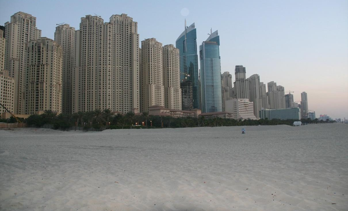 This is a photo showing Dubai Marina in Dubai, United Arab Emirates as seen from the beach on 12 March 2007 during sunset. The majority of the buildings seen in the picture are apart of the "sub-development" in Dubai Marina called Jumeirah Beach Residence. The two blue-colored buildings in the middle of Jumeirah Beach Residence's buildings are the Al Fattan Marine Towers.